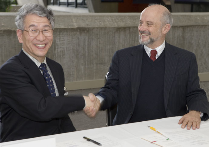 Atsuto Suzuki, Director General of the High Energy Accelerator Research Organization, and Piermaria Oddone, Director of the Fermi National Accelerator Laboratory, signed a memorandum of understanding on April, 2007.